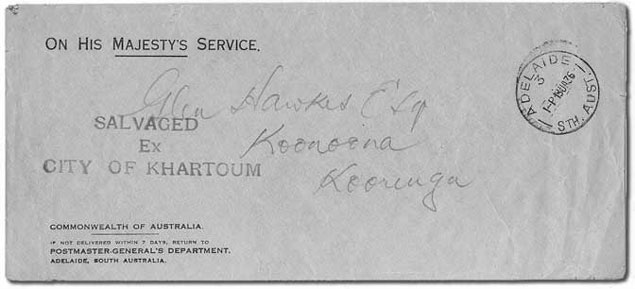 Crash cover of the Imperial Airways seaplane "City of Khartoum" that crashed near Alexandria, Egypt on December 31, 1935. Type "n" cachet applied by the Adelaide, Australia Post Office. Postmark of Adelaide and postmark "Salvaged ex City of Khartoum".